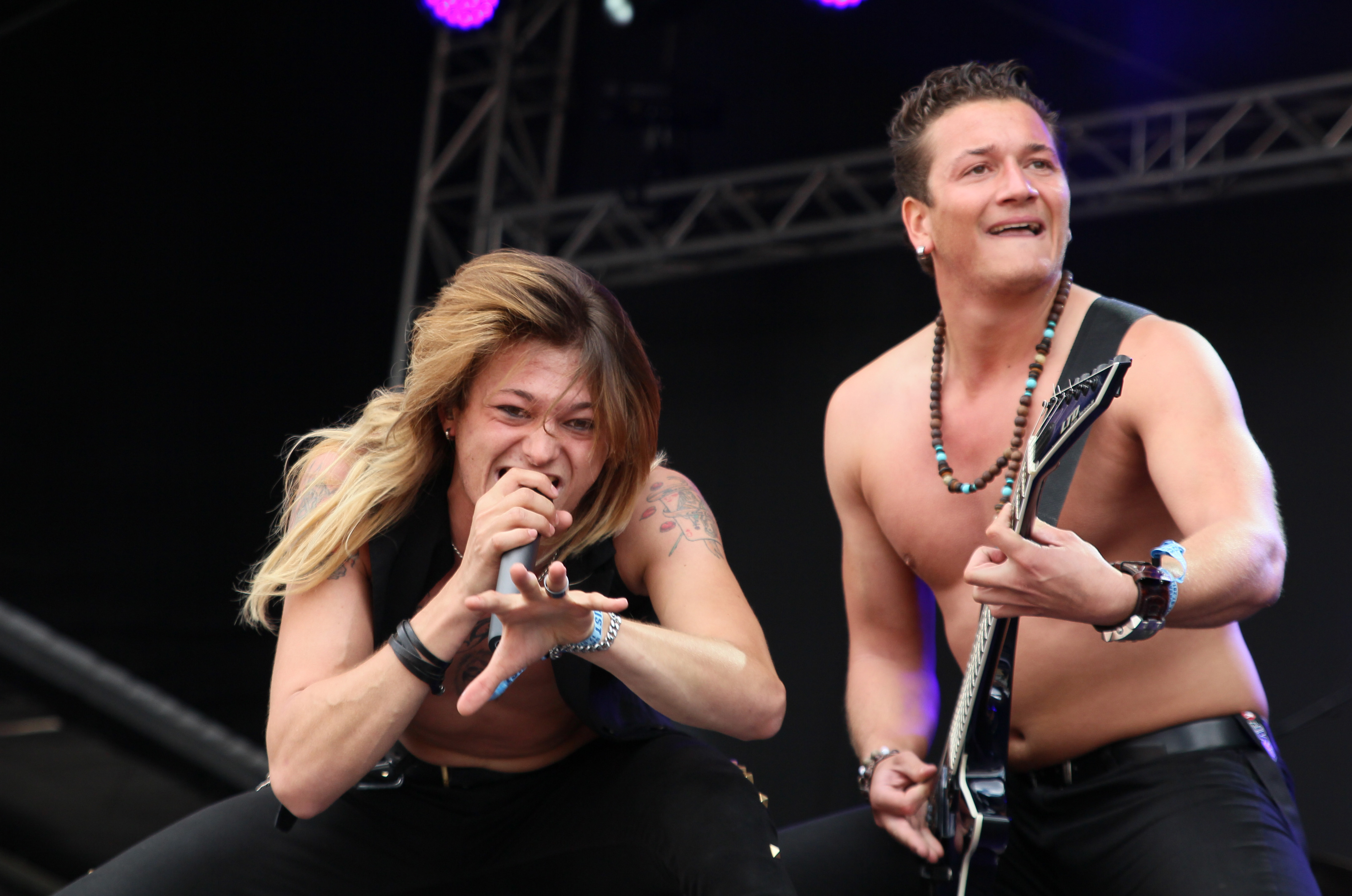 The German metal band Kissin' Dynamite at the Rockharz Open Air 2014 in Ballenstedt/Germany